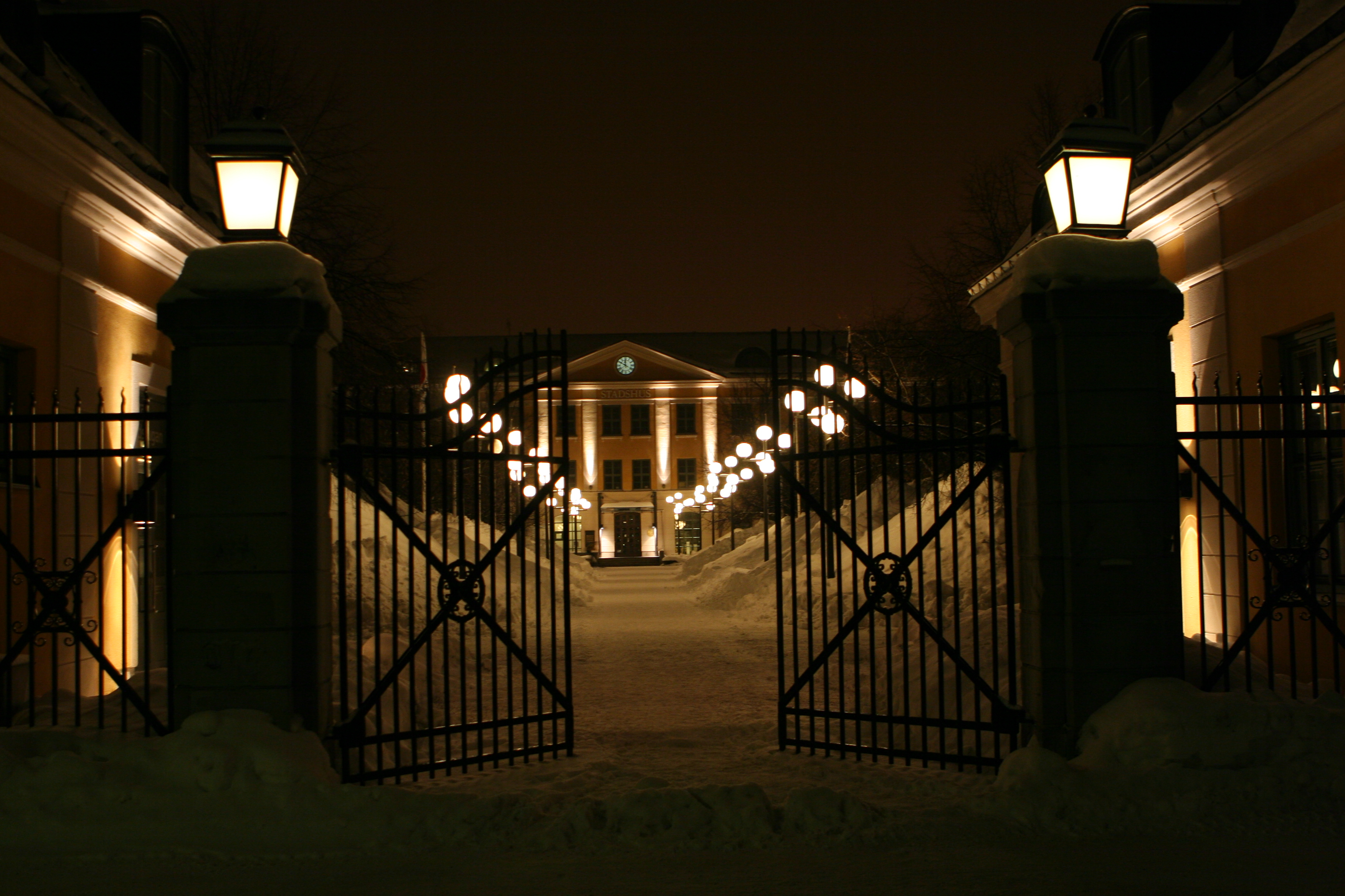 Umeå city hall at night, through the front gates